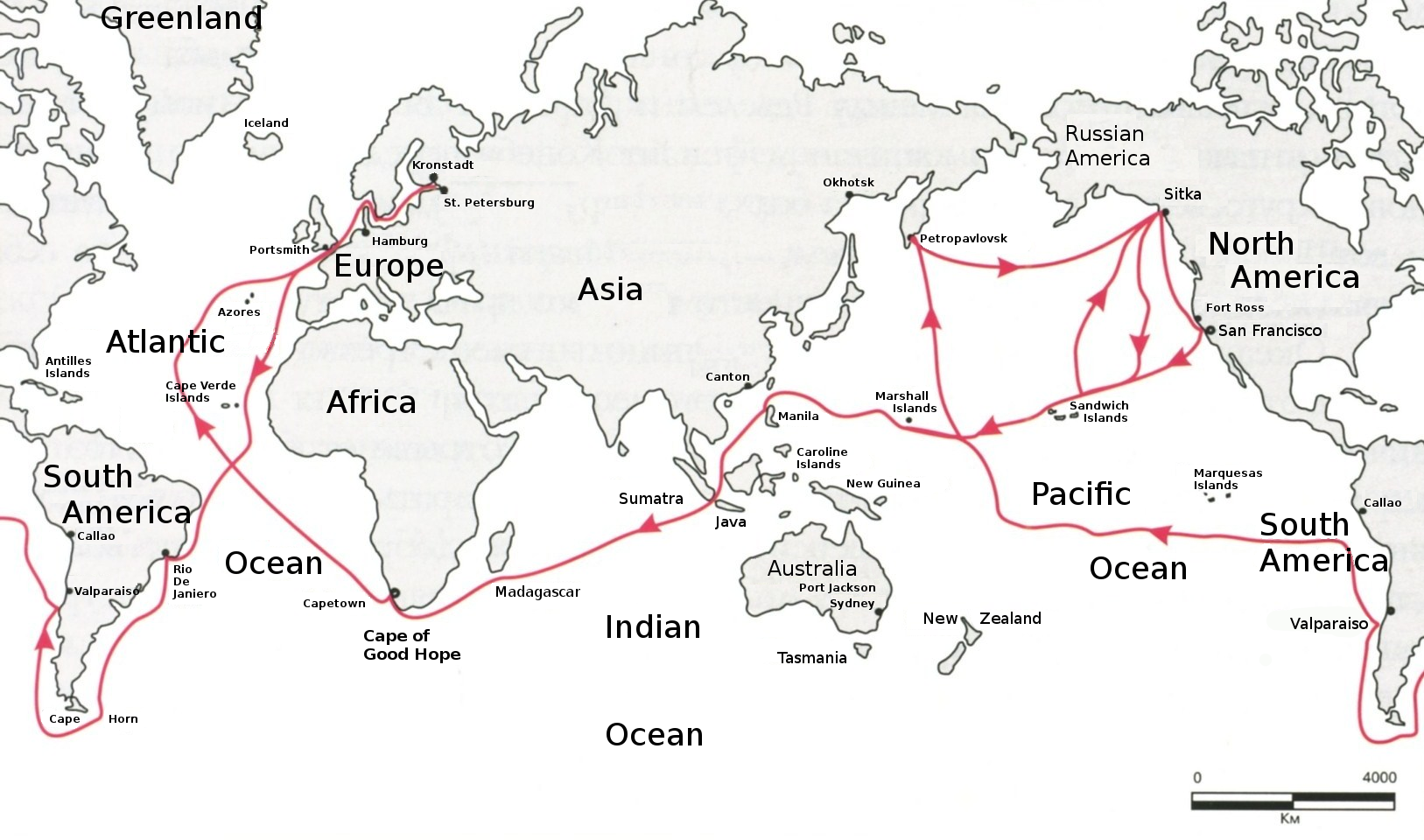 An English translation of Kozebuemap.jpg.